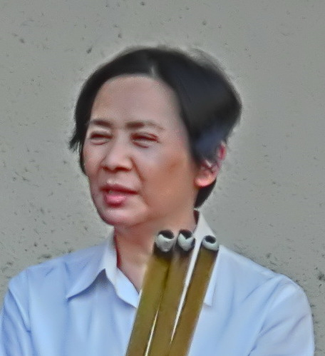 Hong Kong Coliseum, Hung Hom, Hong Kong.